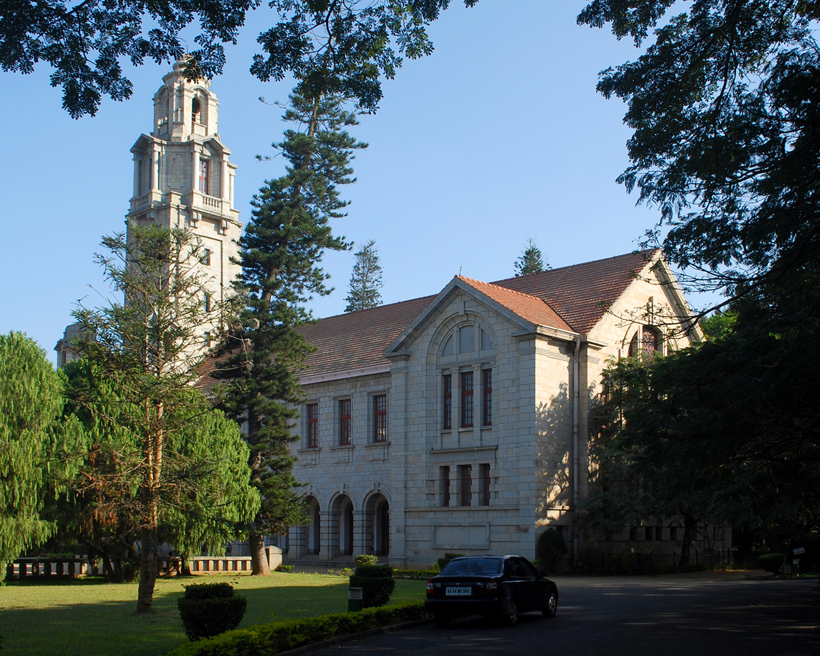 Faculty Hall of Indian Institute of Science, Bangalore